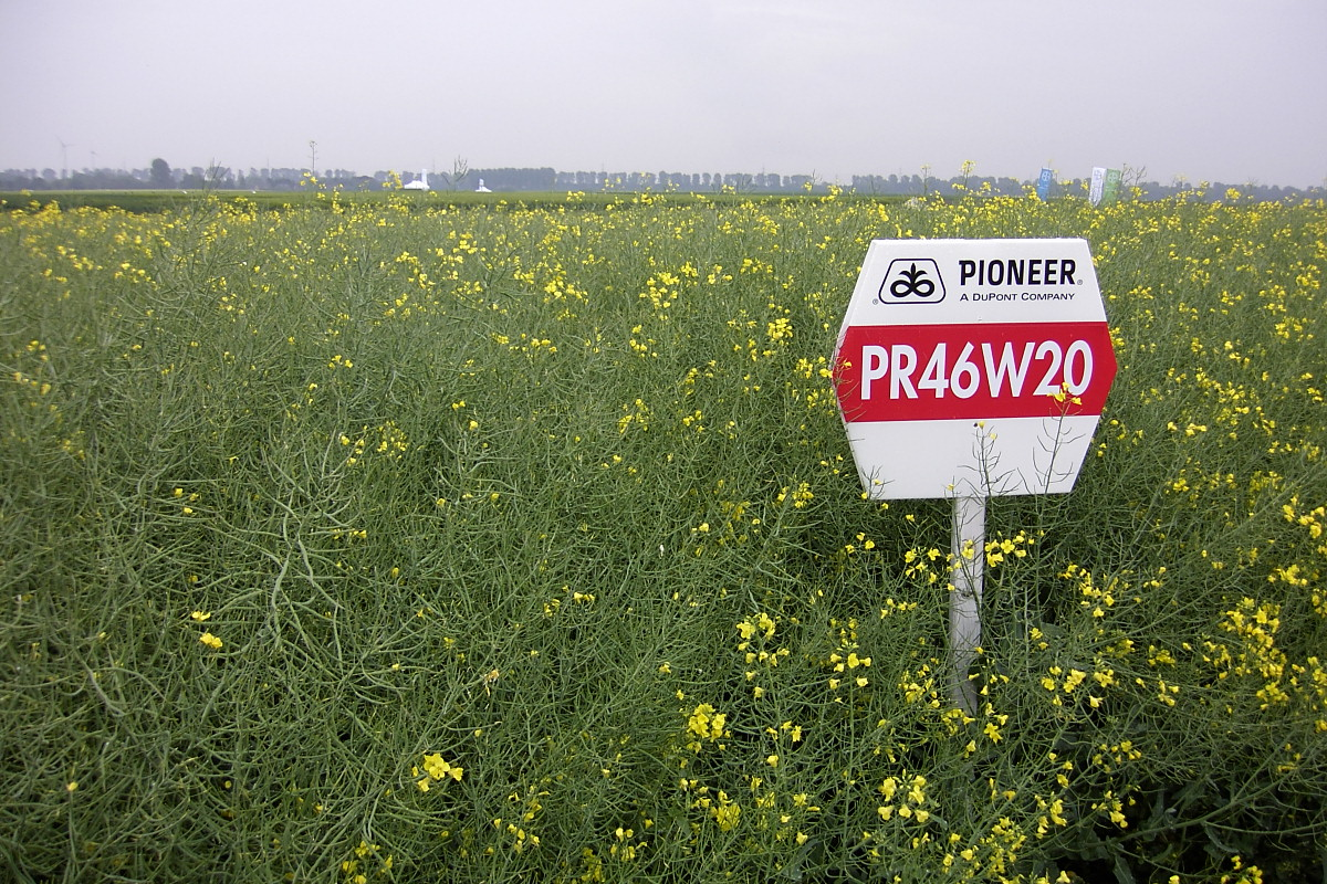 Winter rape (hybrid) (Brassica napus subsp. napus f. napus) of Pioneer Hi-Bred PR46W20.